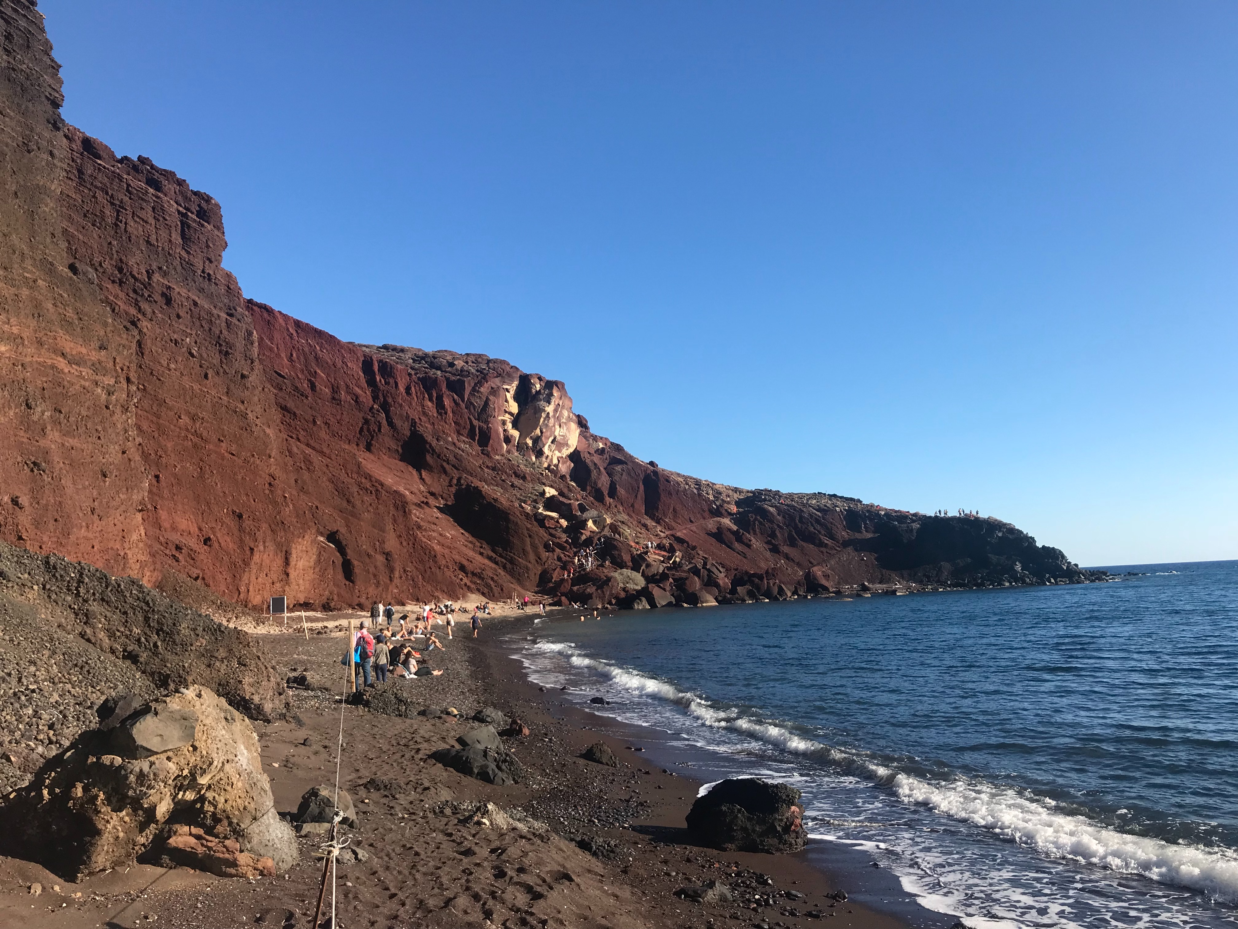 Nisos Thira, Greece, October 2018